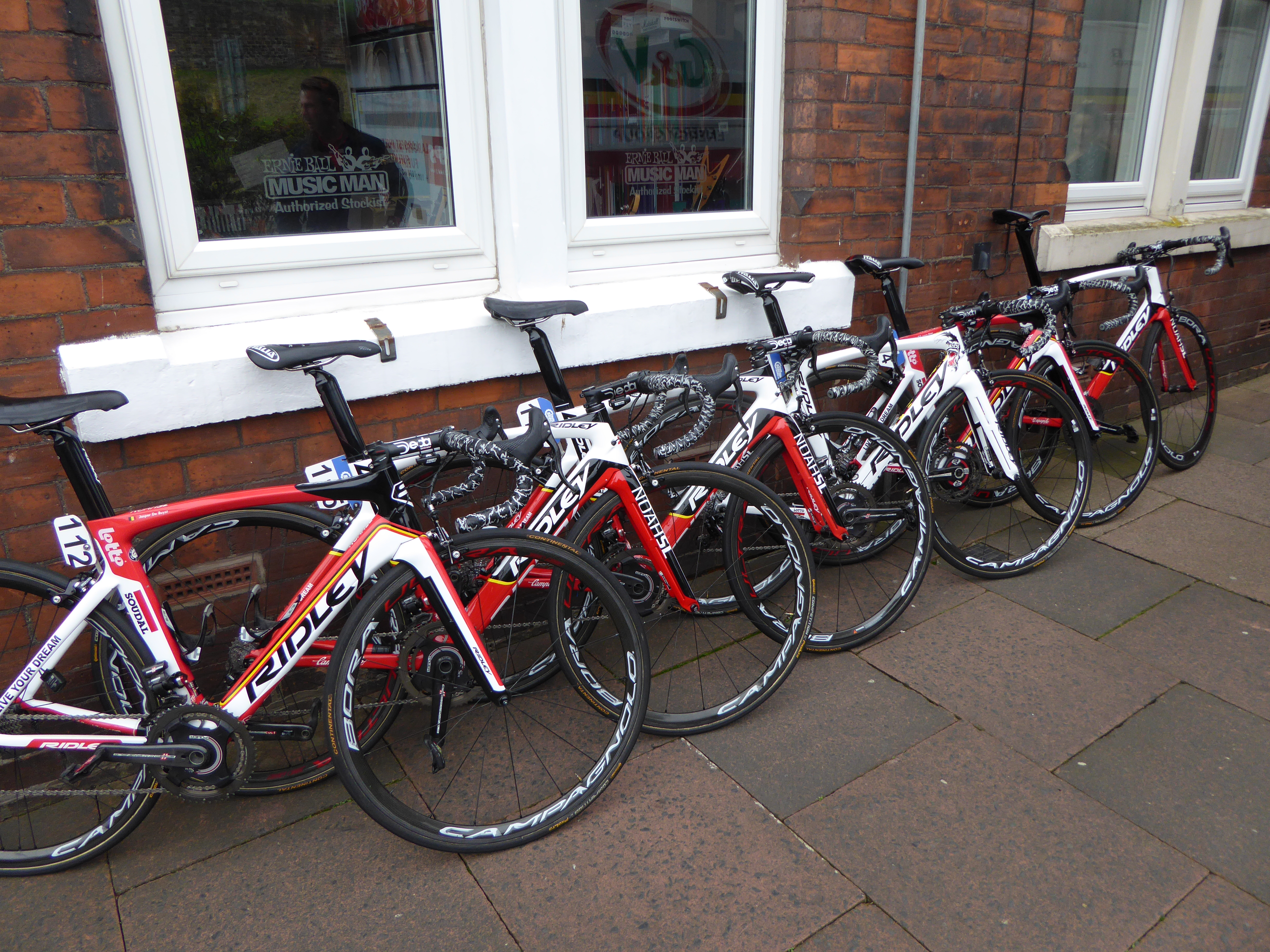 The Ridley bikes of Lotto-Soudal, pictured before Stage 2 of the 2016 Tour of Britain in Carlisle on 5 September 2016.